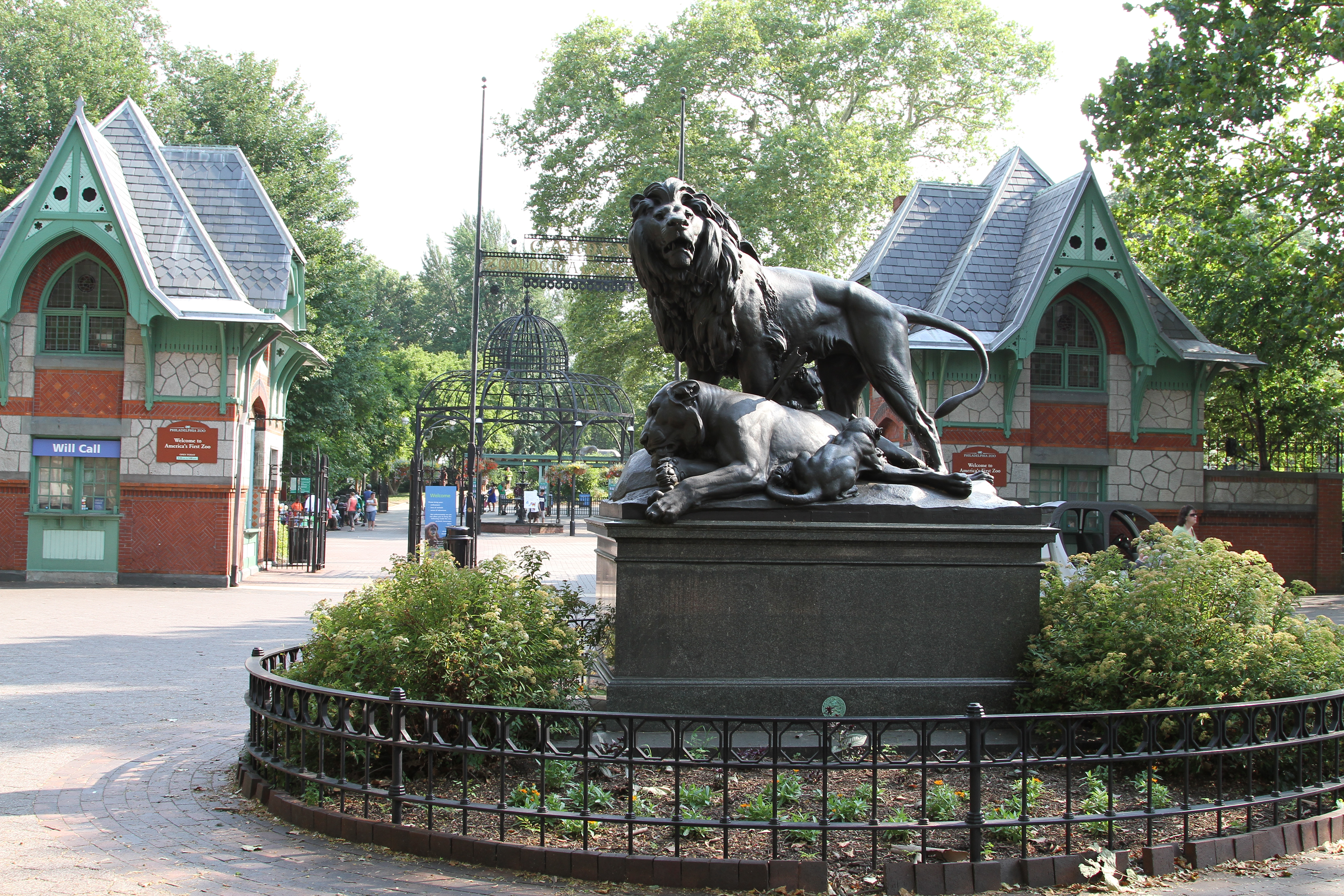 Philadelphia Zoo, Philadelphia, Pennsylvania, USA.